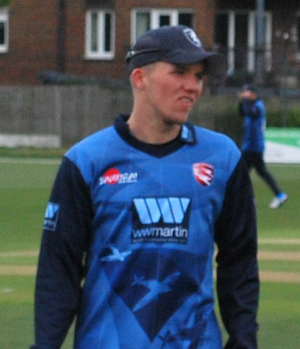 Kent cricketer Matt Milnes fielding at Beckenham in May 2019 in a One Day Cup match against Essex.